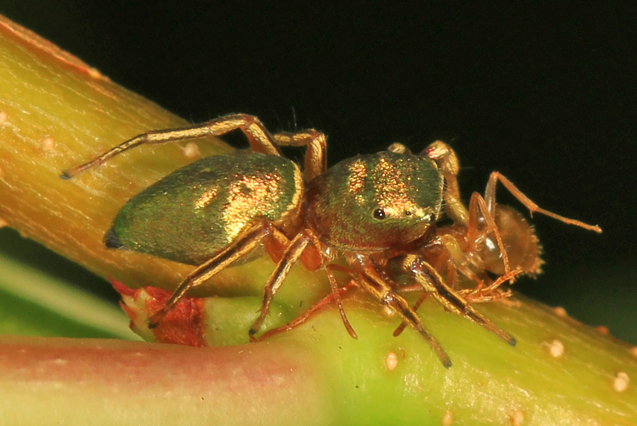 Metallic Jumper - Tutelina elegans, Woodbridge, Virginia. This tiny spider has captured an ant.